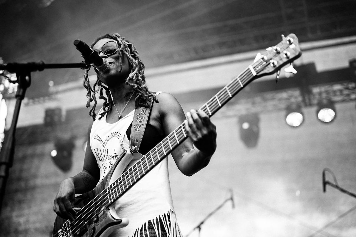 Divinity Roxx performs live The Reeveland Festival sponsored by The Warwick Bass Factory in Germany, 2015.